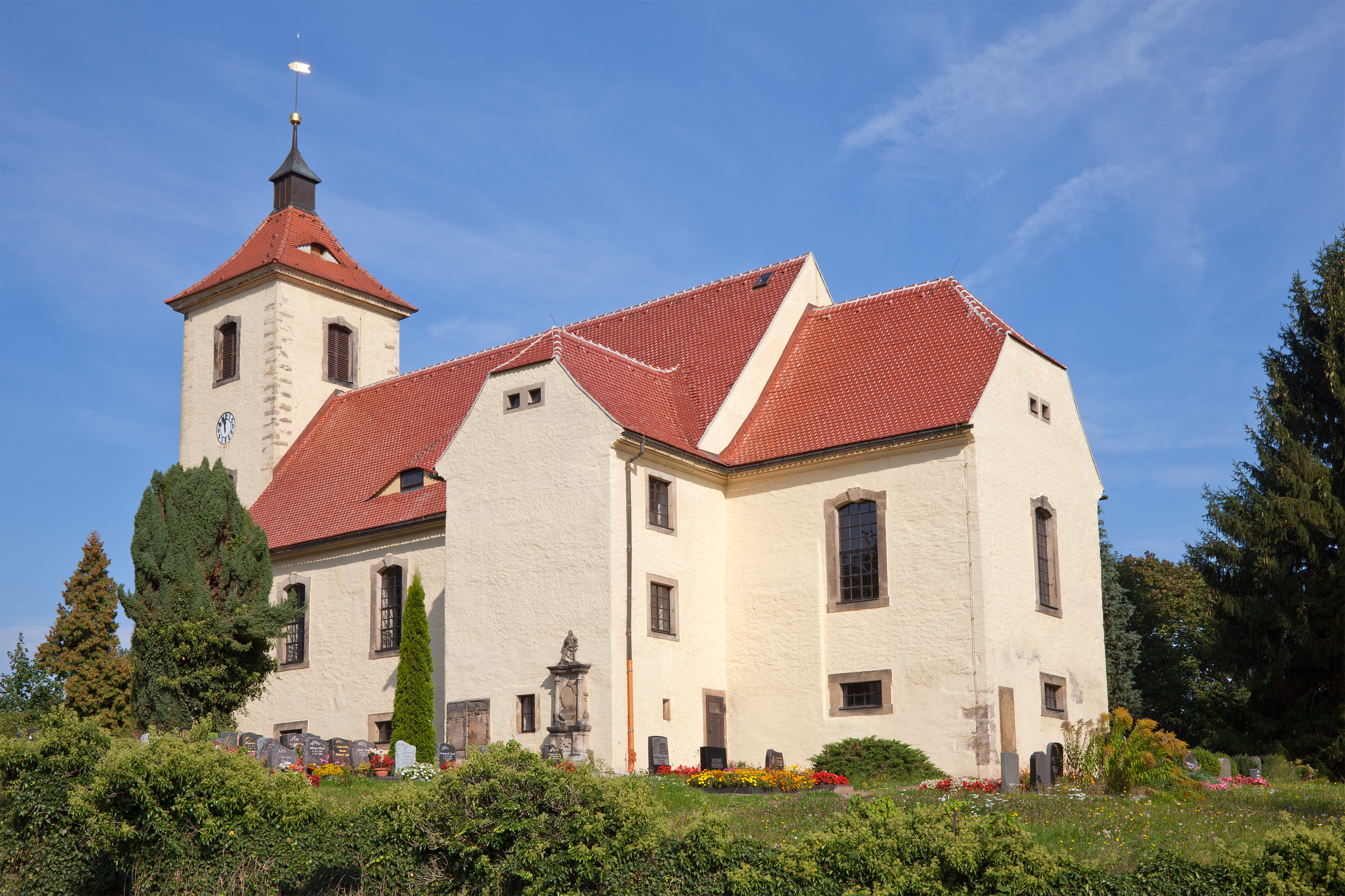 Bieberstein (Reinsberg), church